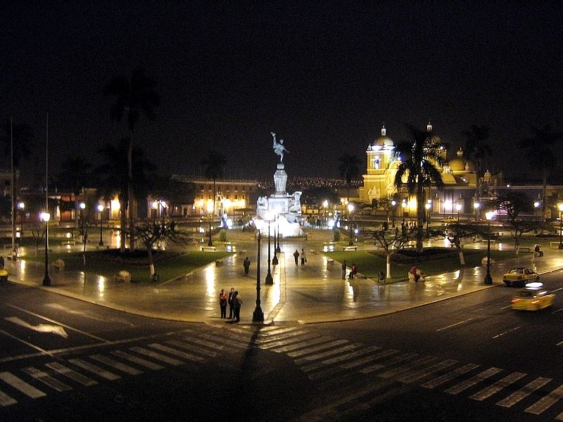 Main Square of Trujillo